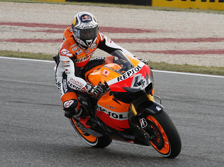 Andrea Dovizioso 2011 Estoril